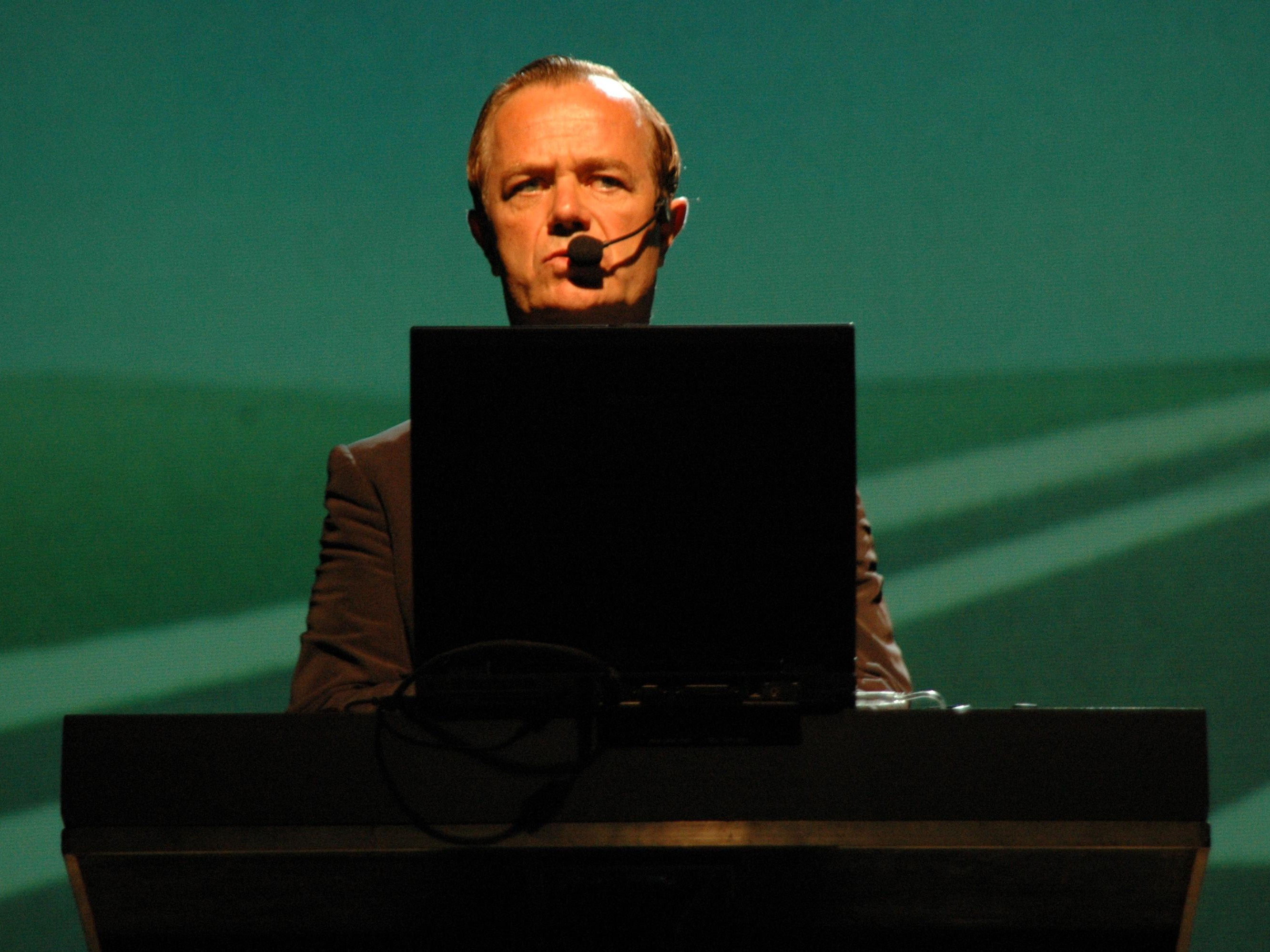 Ralf Hütter (Kraftwerk), live in Ferrara (Italy), 06/07/2005